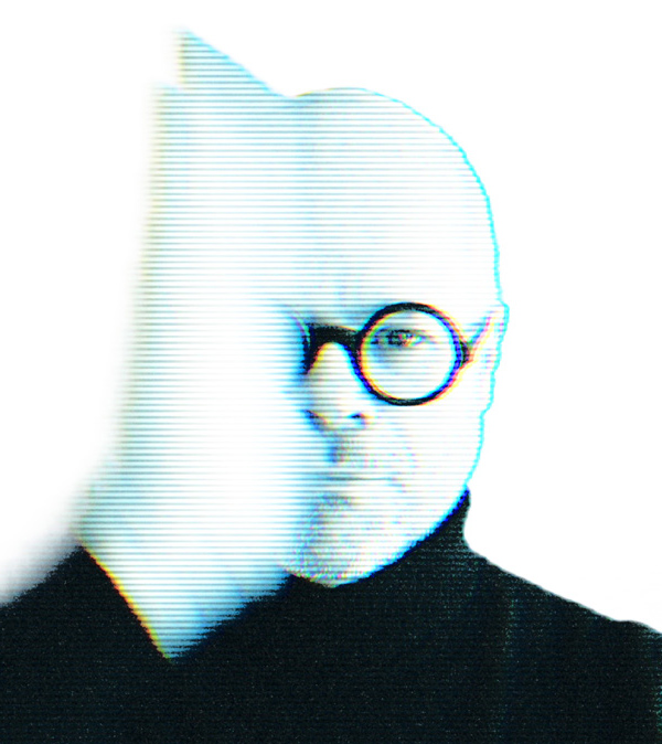 Self-portrait of public artist Martin Firrell created in 2016